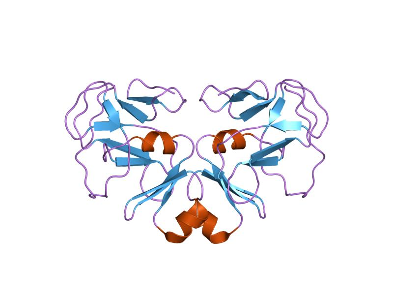 Cartoon representation of the molecular structure of protein registered with 1n3j code.